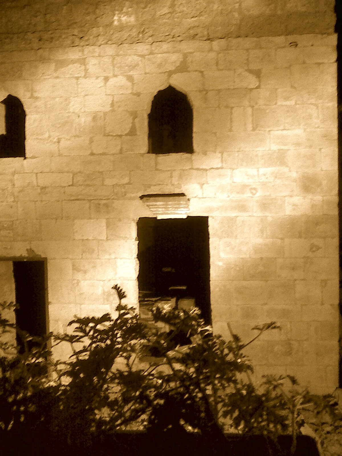 this is a facade of an old building that is in the process of reconstruction in the area of Mar Mikhael, Beirut.